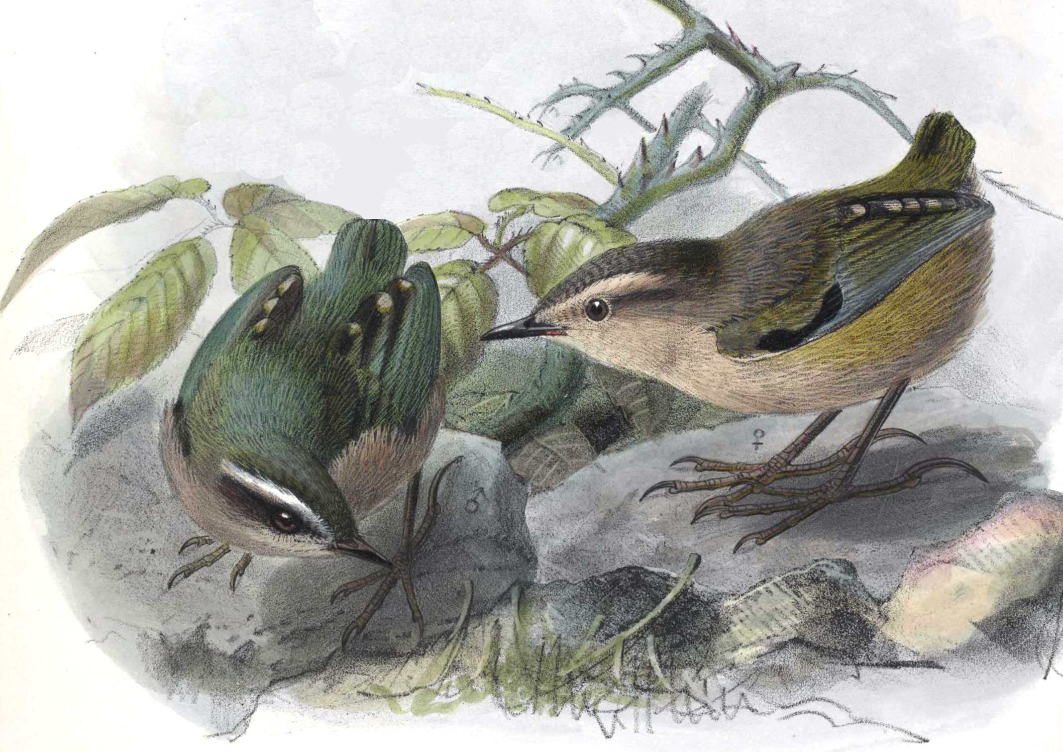 Rock-Wren male and female.